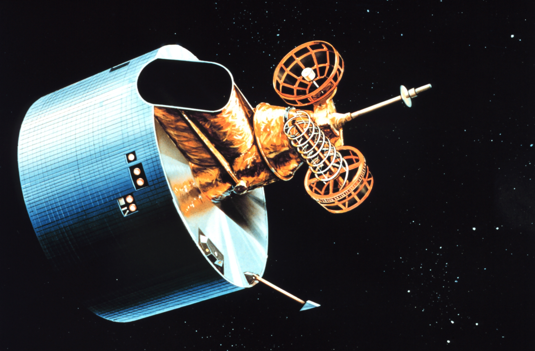 Illustration of the GOES D/E/F/H (4/5/6/x/7) series of meteorological satellites.